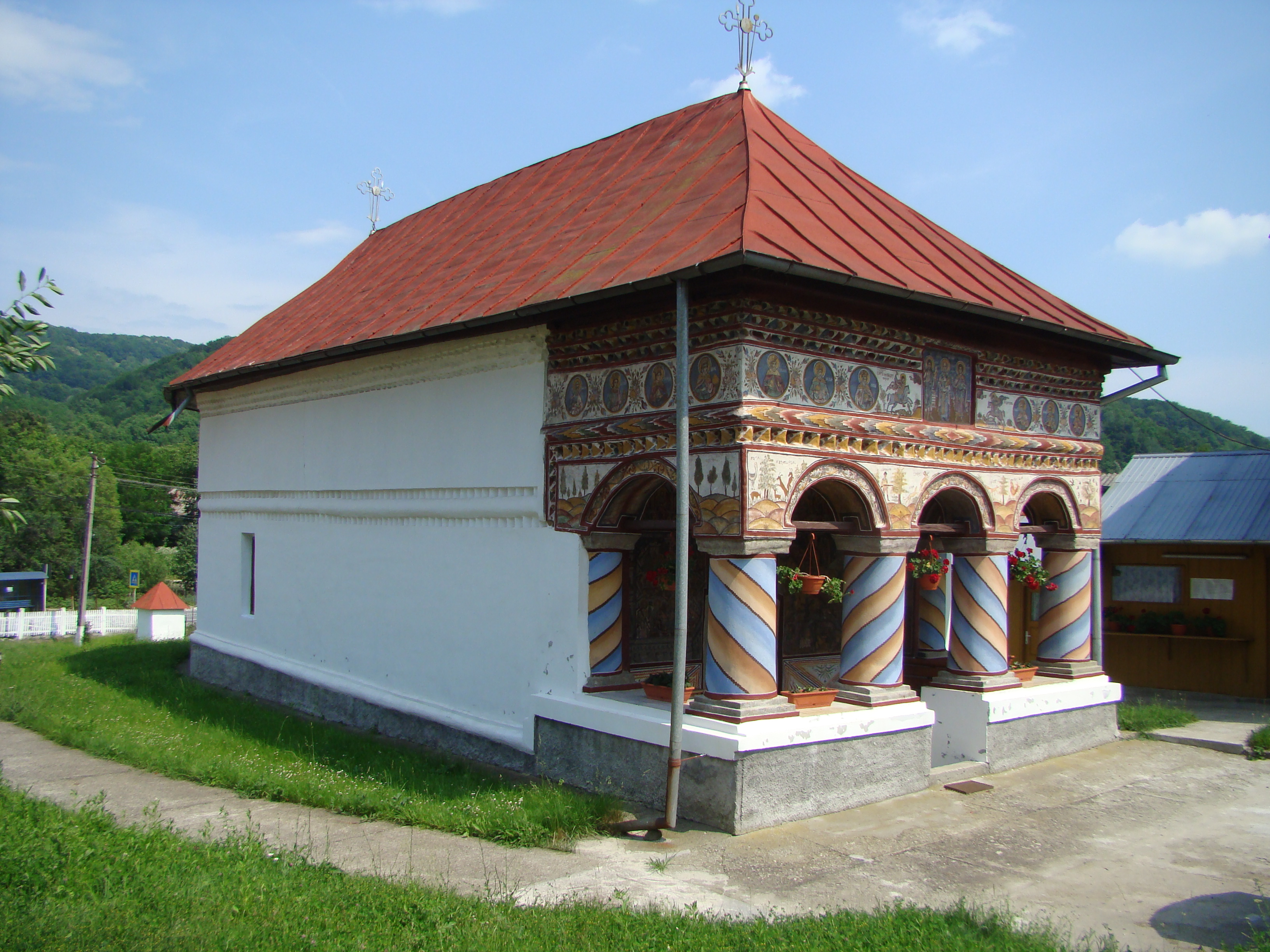 Church of Saint John the Baptist in Olănești, Vâlcea county, Romania